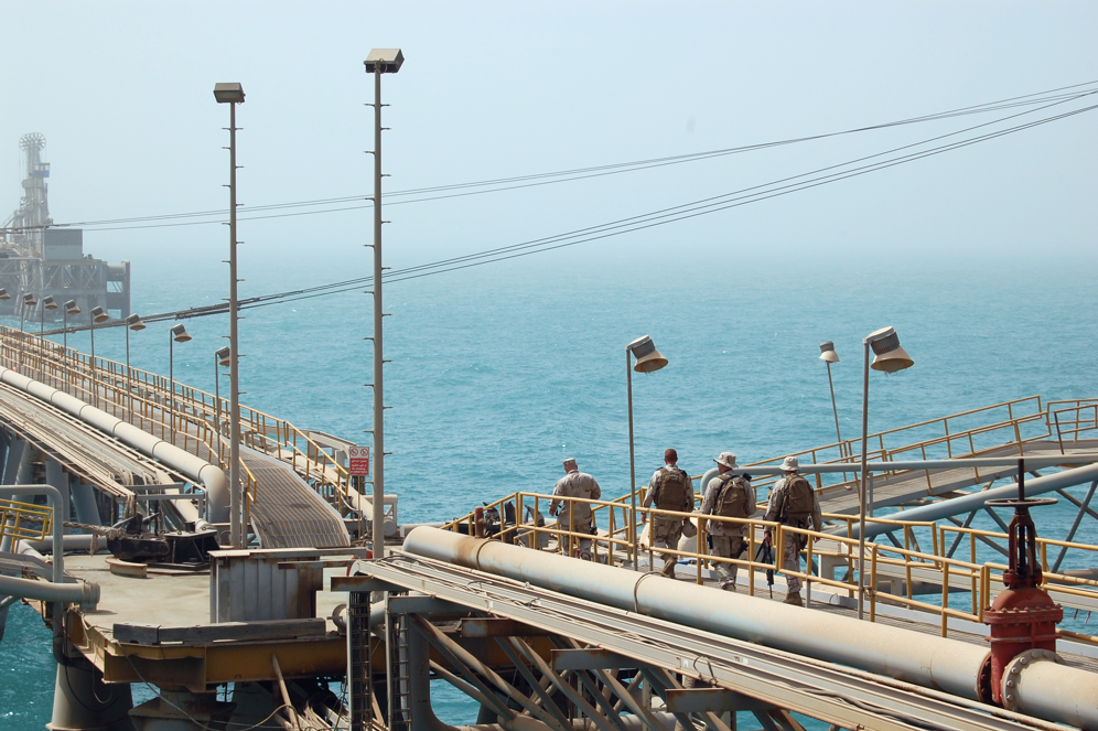 Sailors on board Al Basrah Oil Terminal protect Iraq's critical oil infrastructure in the Northern Arabian Gulf